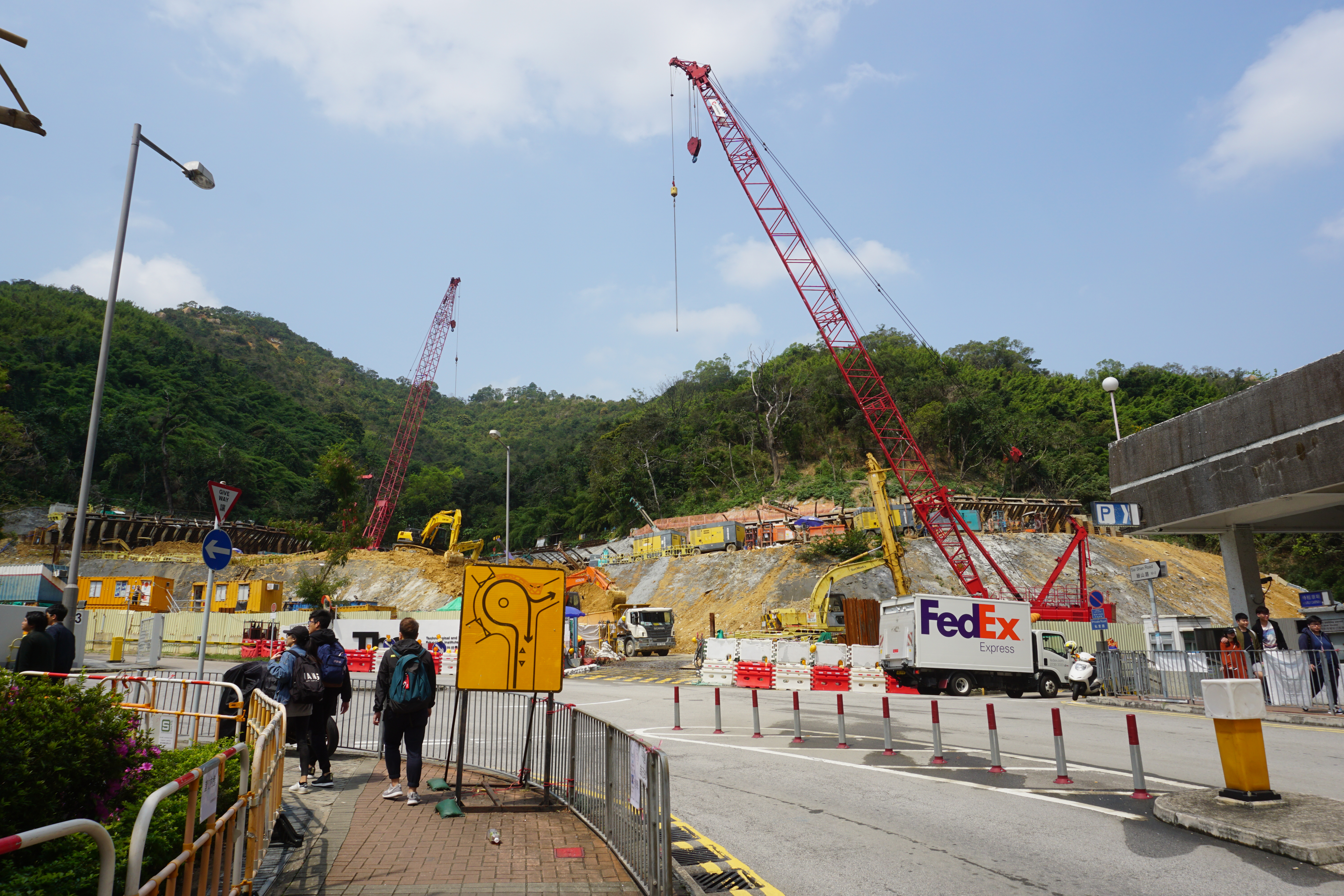 The Grand Marine, Hong Kong.